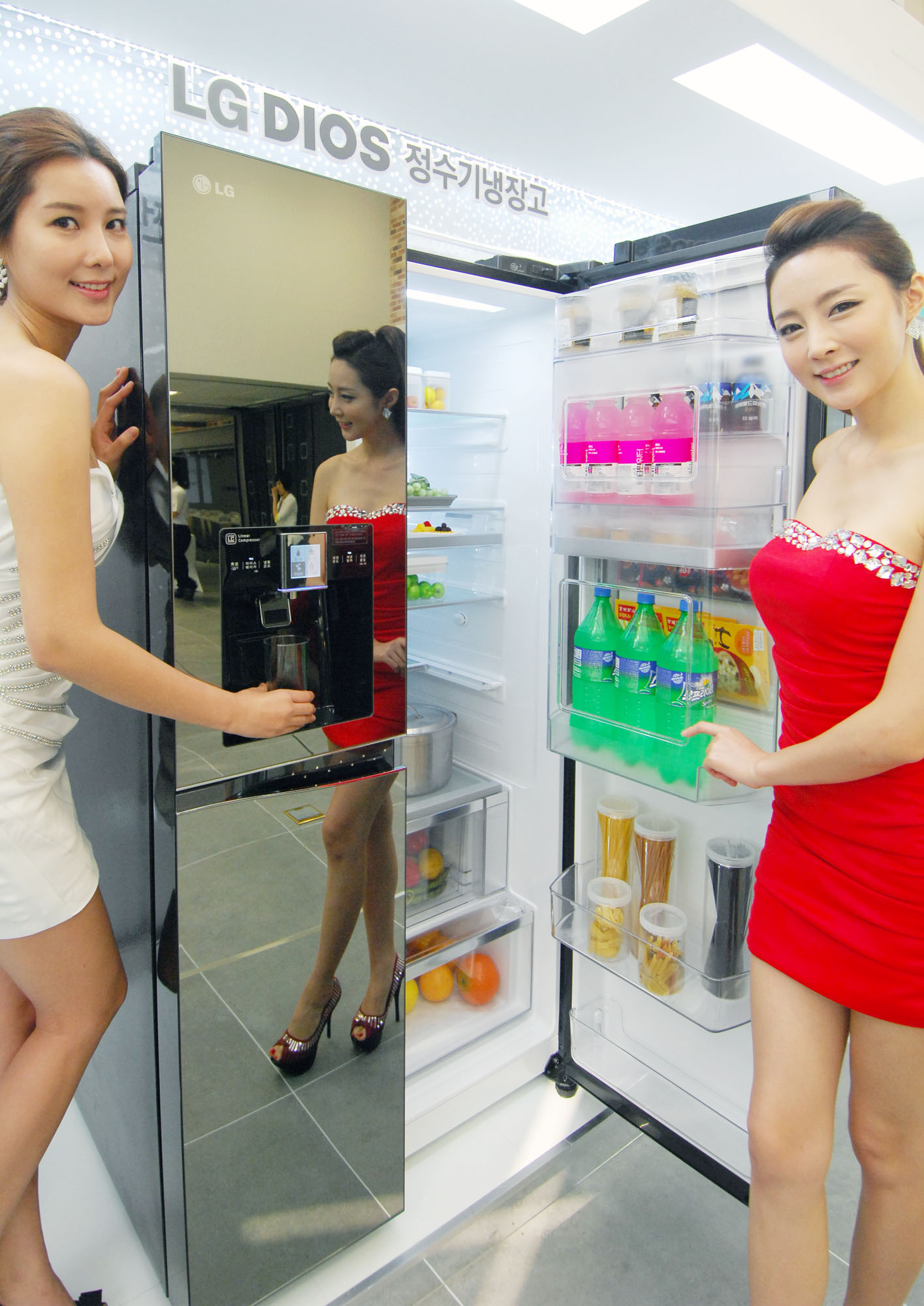 Models introducing Refrigerator